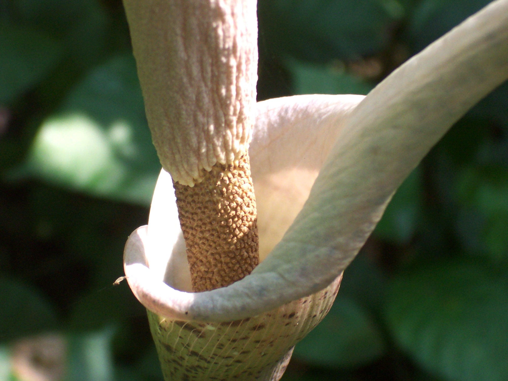 Amorphophallus variabilis spadix, close up. From Bogor, West Java, Indonesia.